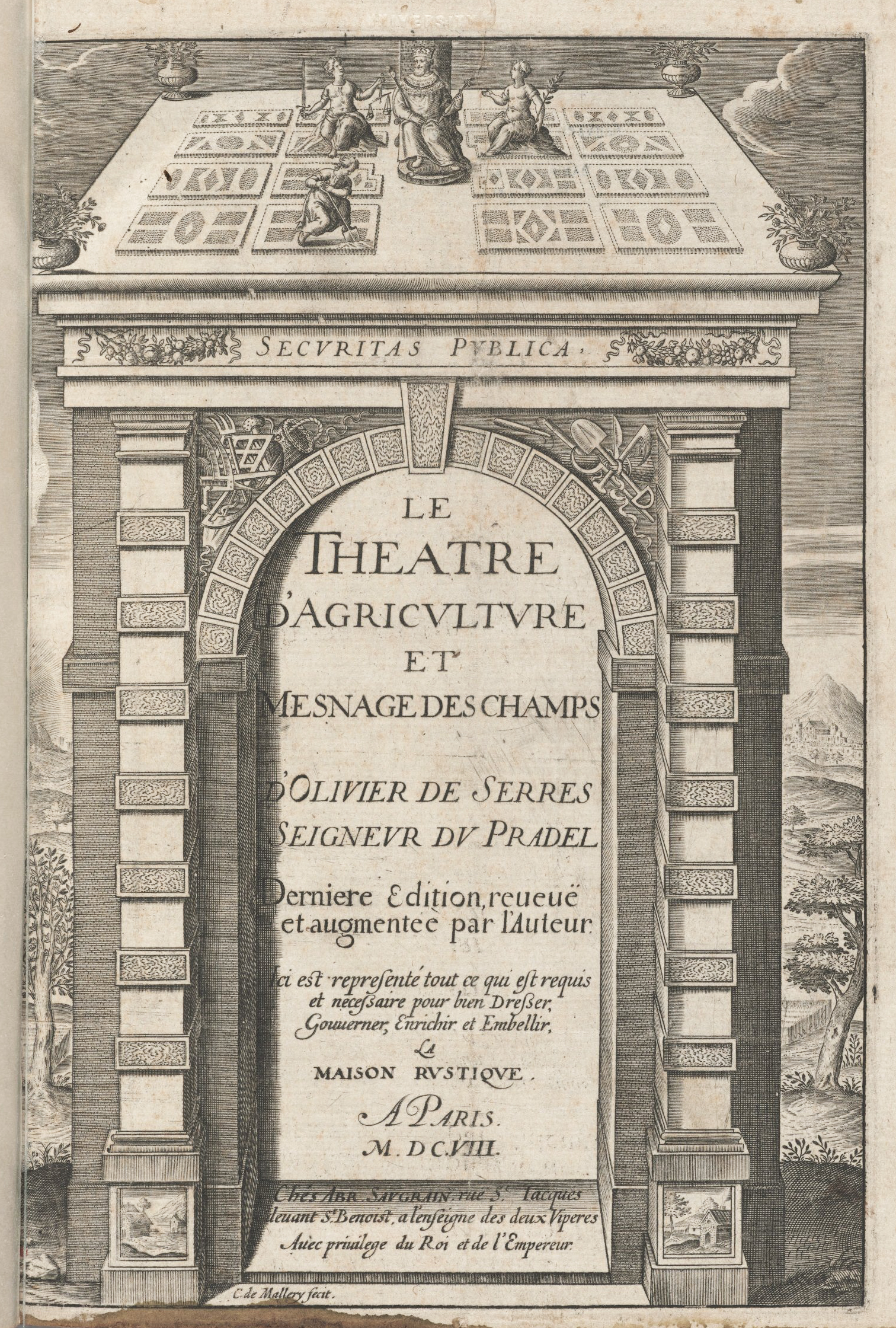 Frontispiece to Le theatre d’agriculture et mesnage des champs, Paris: 1608, by Oliver de Serres (1539-1619). Slightly adjusted for color and brightness/contrast. F 6916.00.9*, Houghton Library, Harvard University